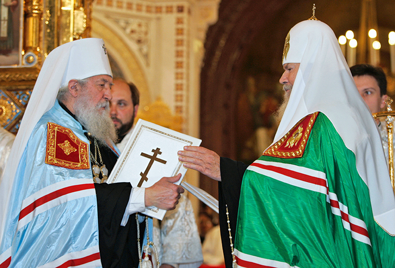 Metropolitan Laurus and Patriarch Alexy II exchange signed copies of the Act on Canonical Communion